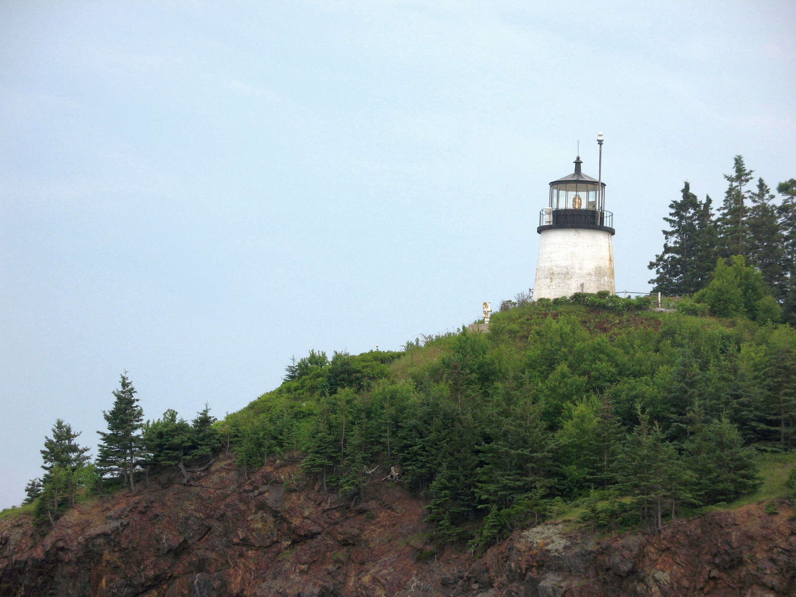 Photograph of Owl's Head lighthouse, near Rockland, Maine